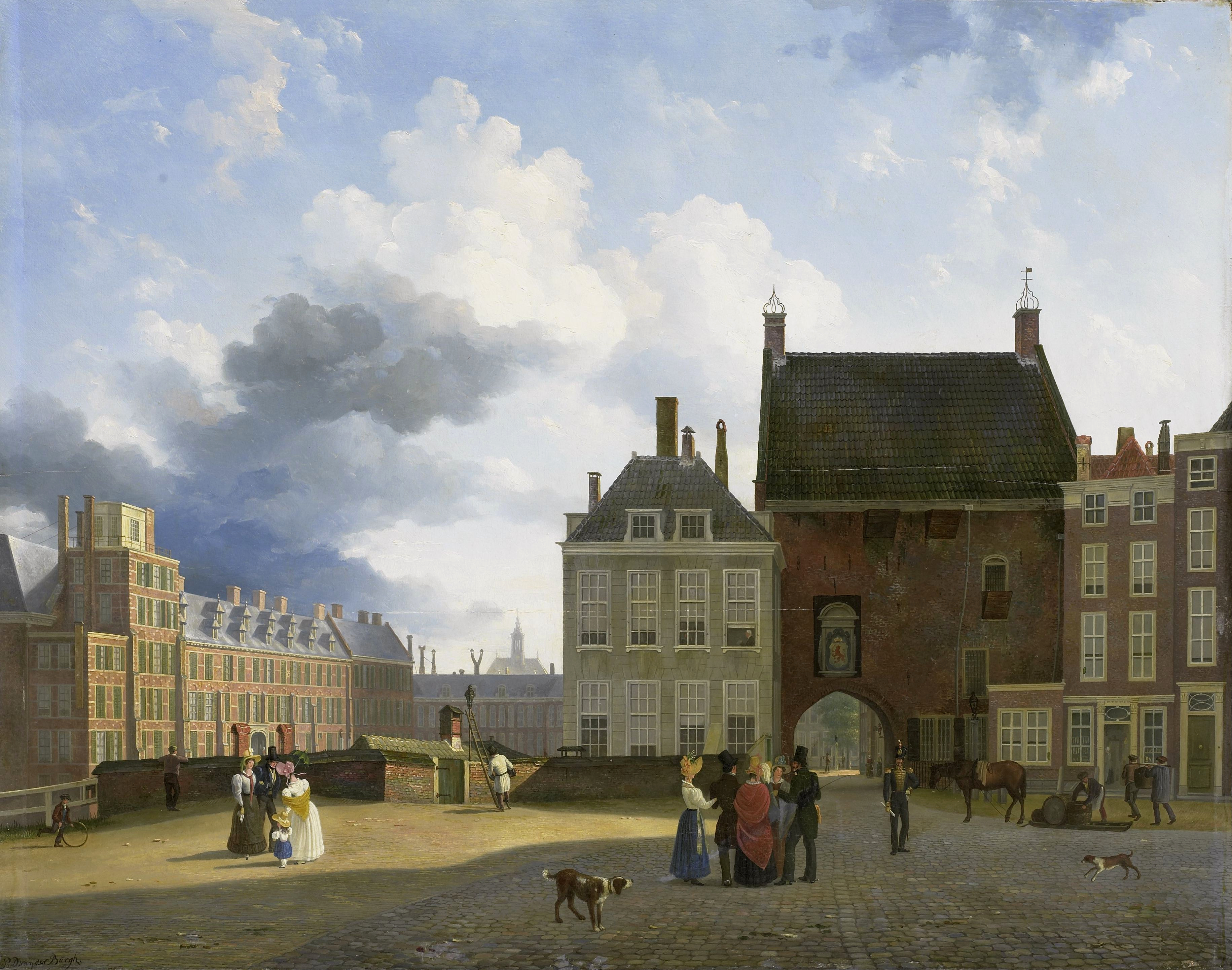 The Prison Gate and the Plaats-square in The Hague, the Netherlands.